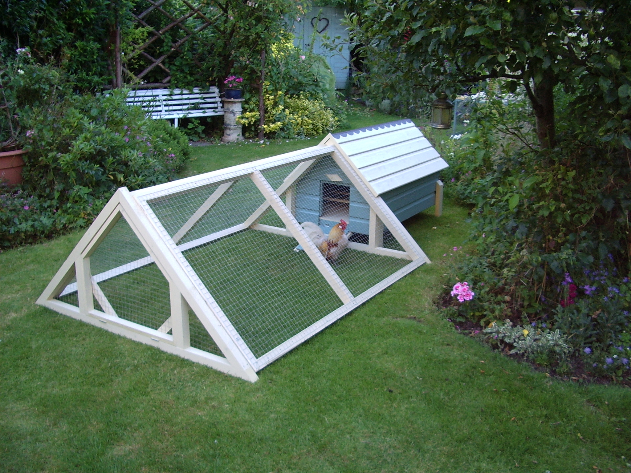 Chicken coop and run by oakdene coops